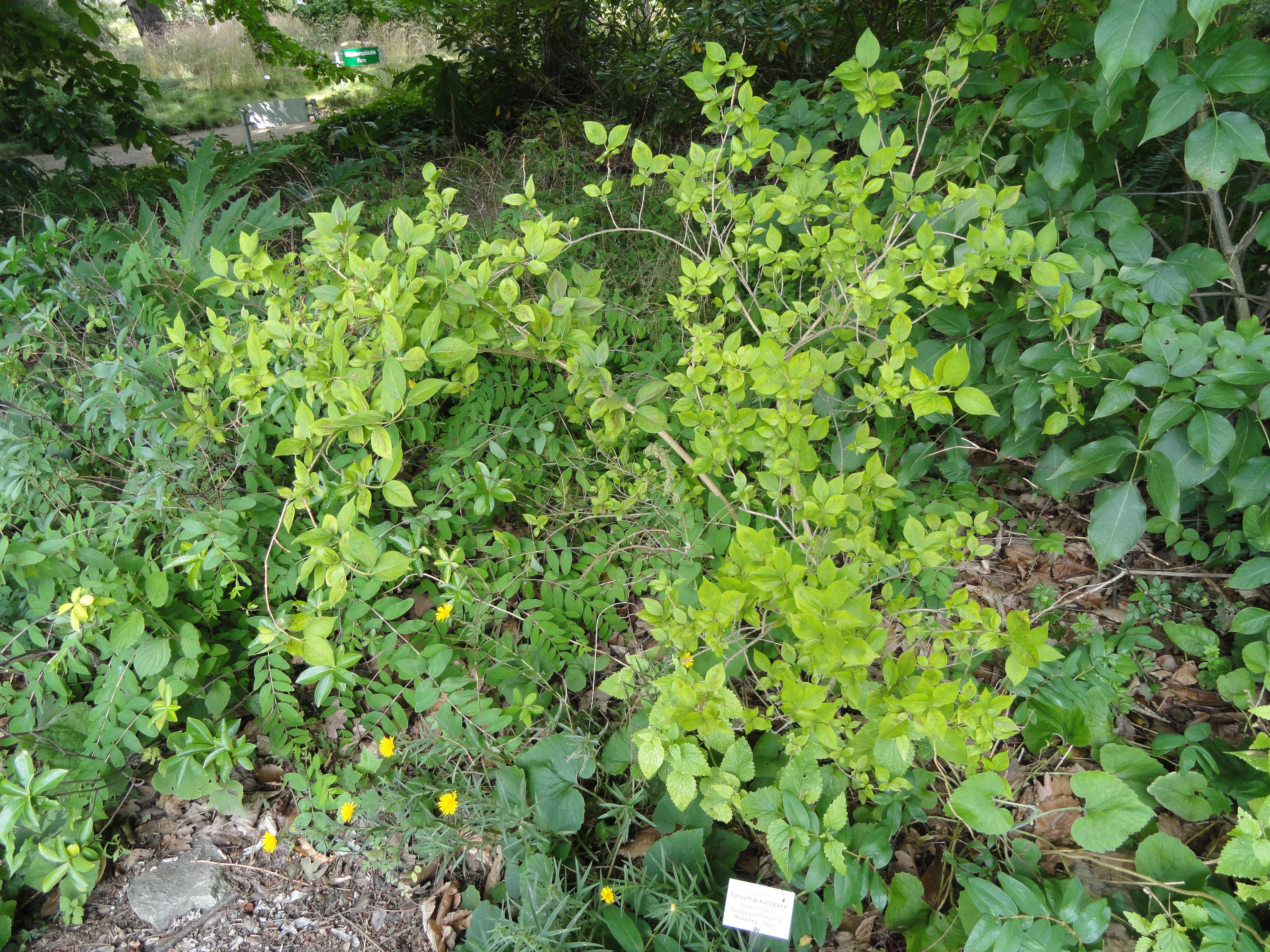 Botanical specimen in the Botanischer Garten, Frankfurt am Main, located at Siesmayerstraße 72, Frankfurt am Main, Germany.